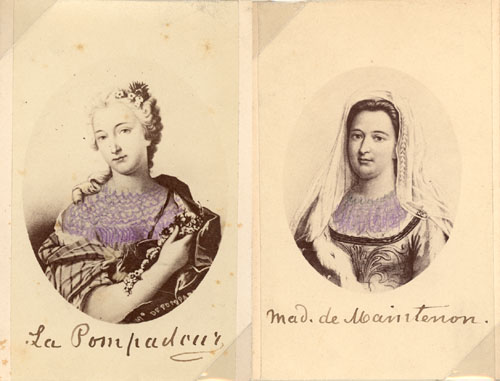 Portrait of a Lady, previously wrongly called Portrait of Madame de Pompadour MV 3775 ; madame de maintenon